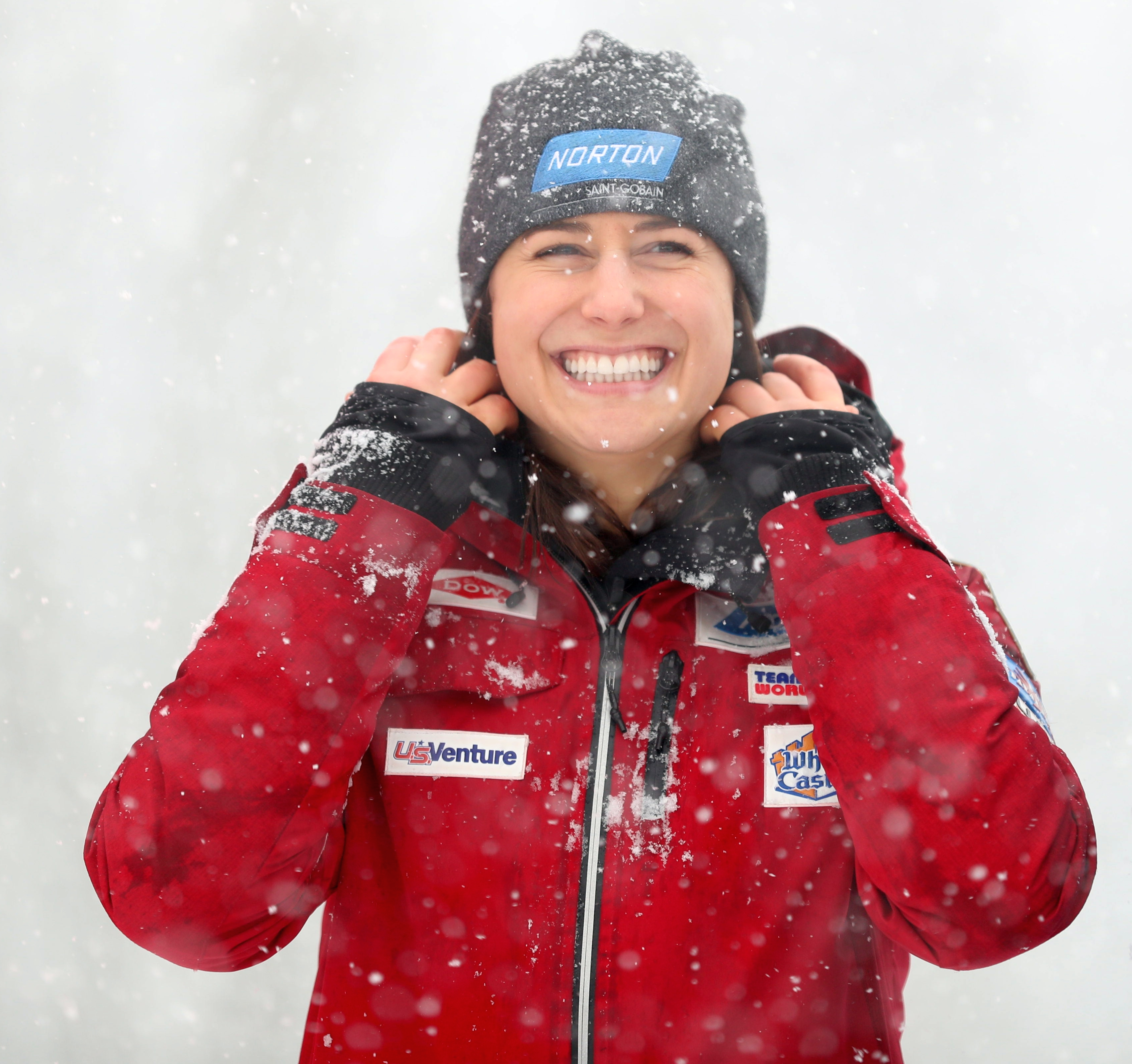 Women's World Cup victory ceremony at the 2018/19 Luge World Cup in Altenberg